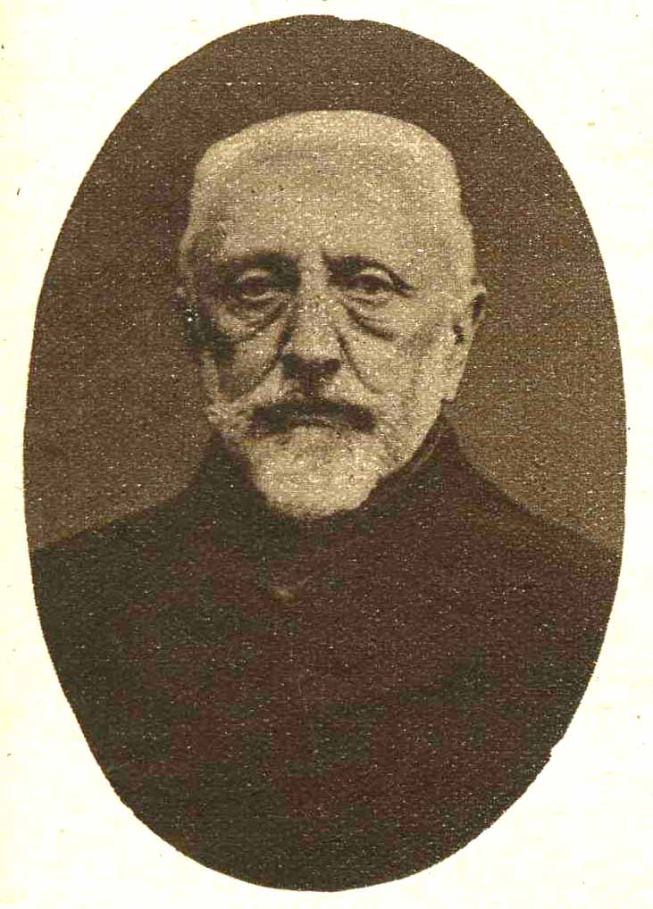 French lawyer, journalist and politician Étienne-Victor Lamy (1845-1919)